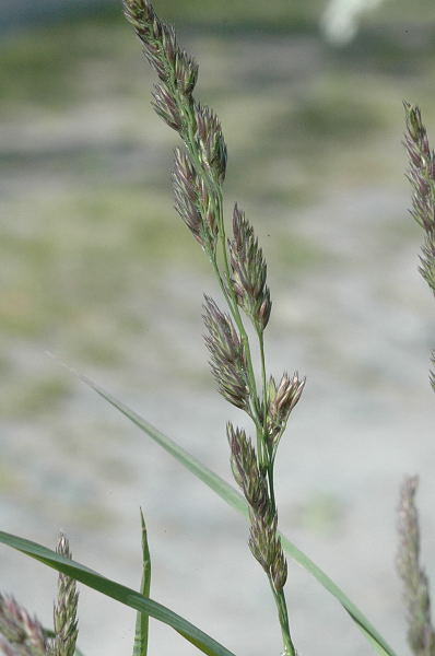 Picture taken in Commanster, Belgian High Ardennes . Species: Dactylis glomerata